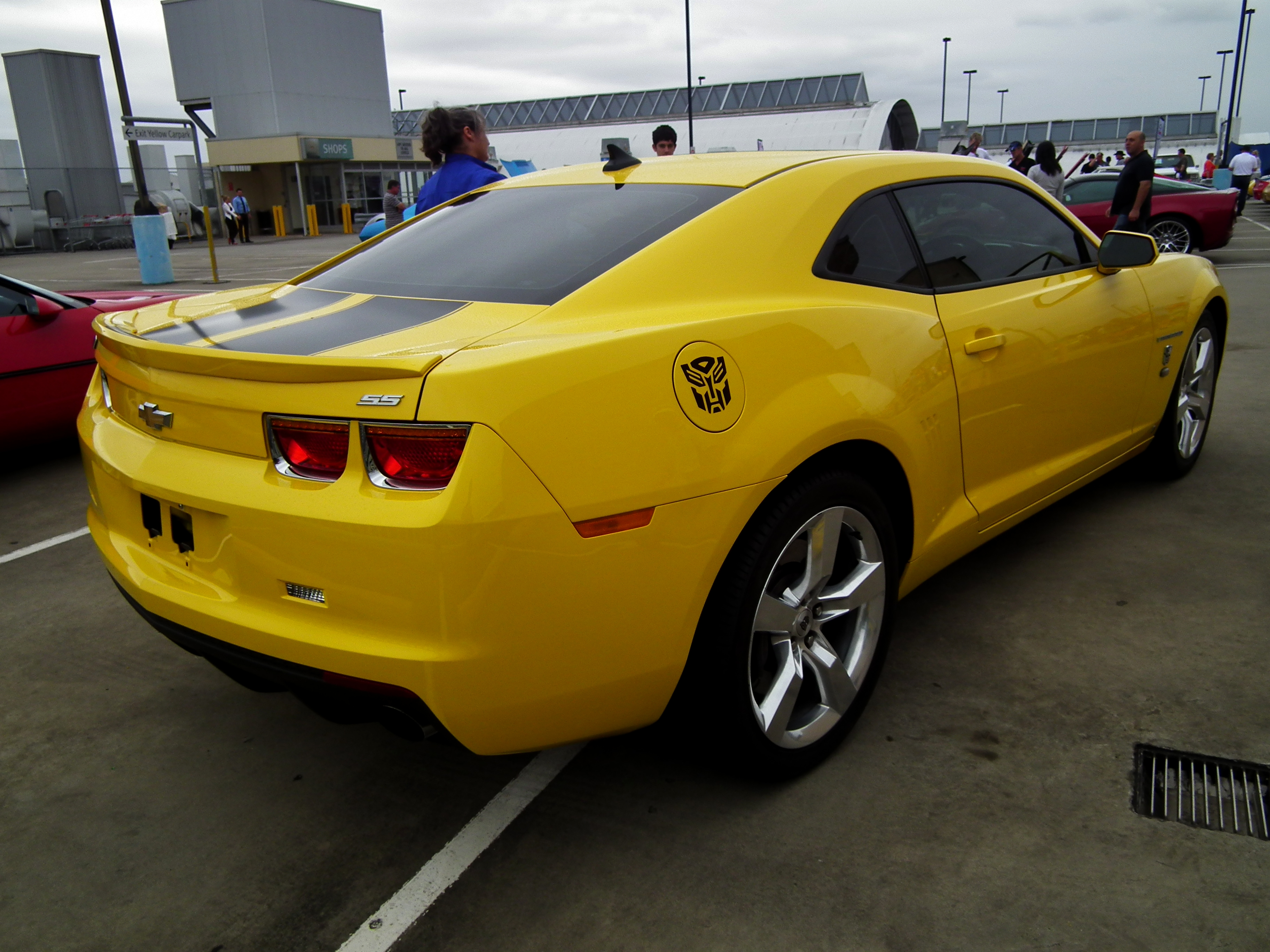 2010 Chevrolet Camaro SS Transformers Edition coupe. Taken at the 2013 New South Wales All American Day, held at Castle Towers Shopping Centre, Castle Hill, Sydney.